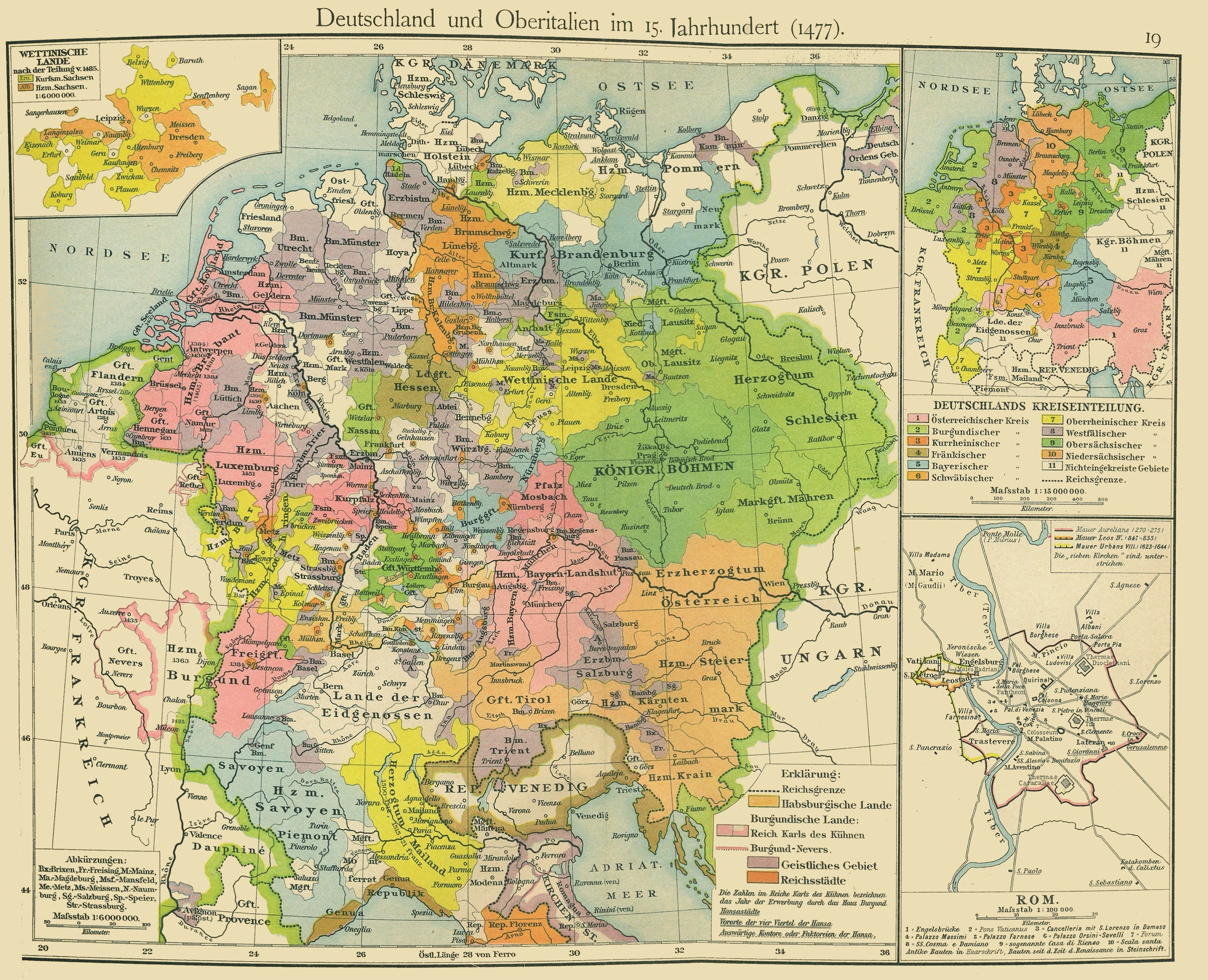 Germany and Upper Italy in 1477